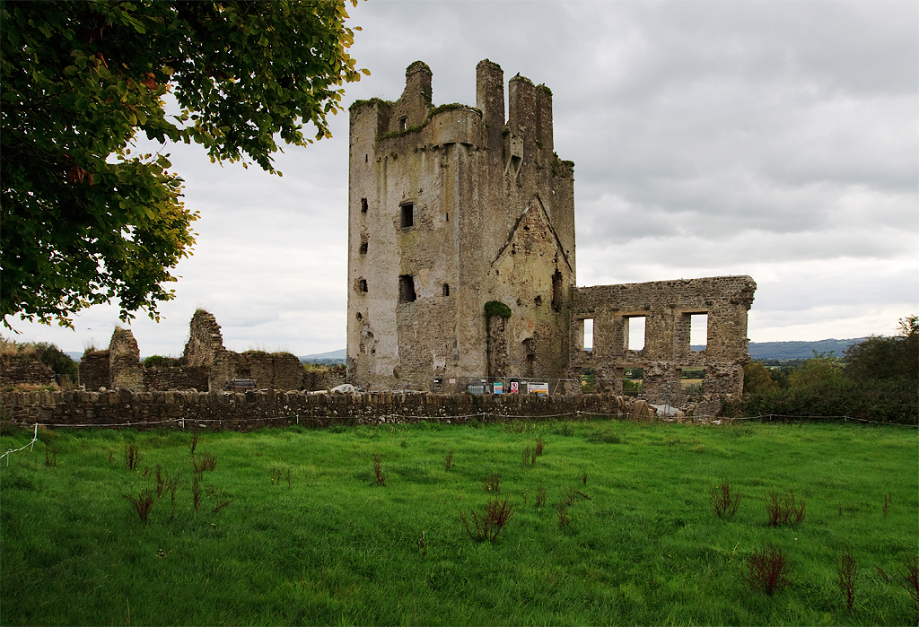 Castles of Munster: Kilcash, Tipperary, Ireland